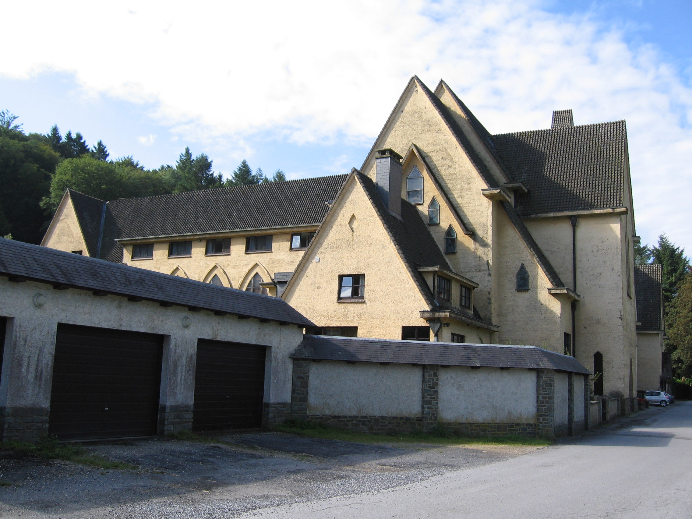 The Abbey of Cordemois (Cistercian nuns), at 4 kms from the city of Bouillon (Belgium)